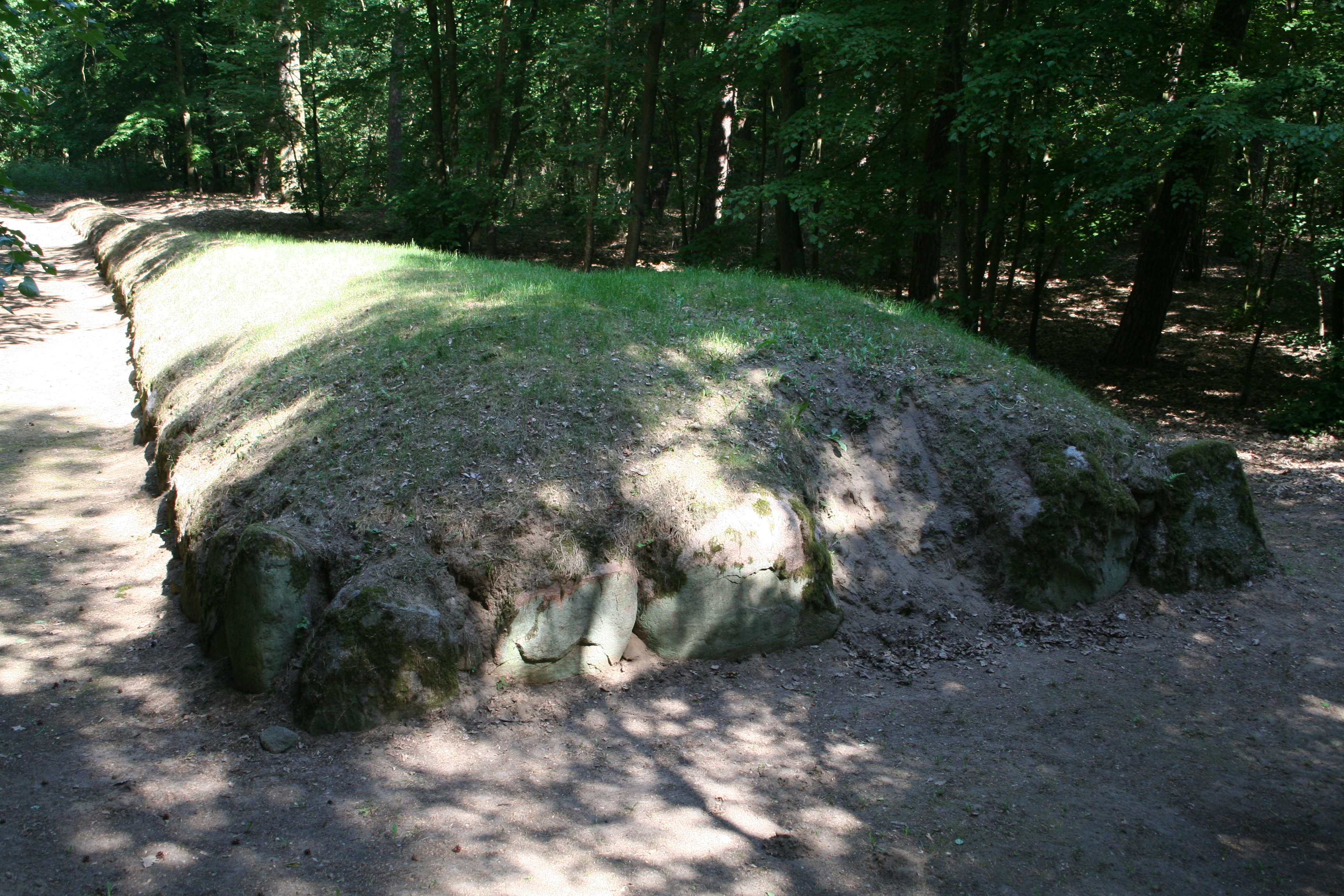 Earthen Long Barrow Wietrzychowice 5